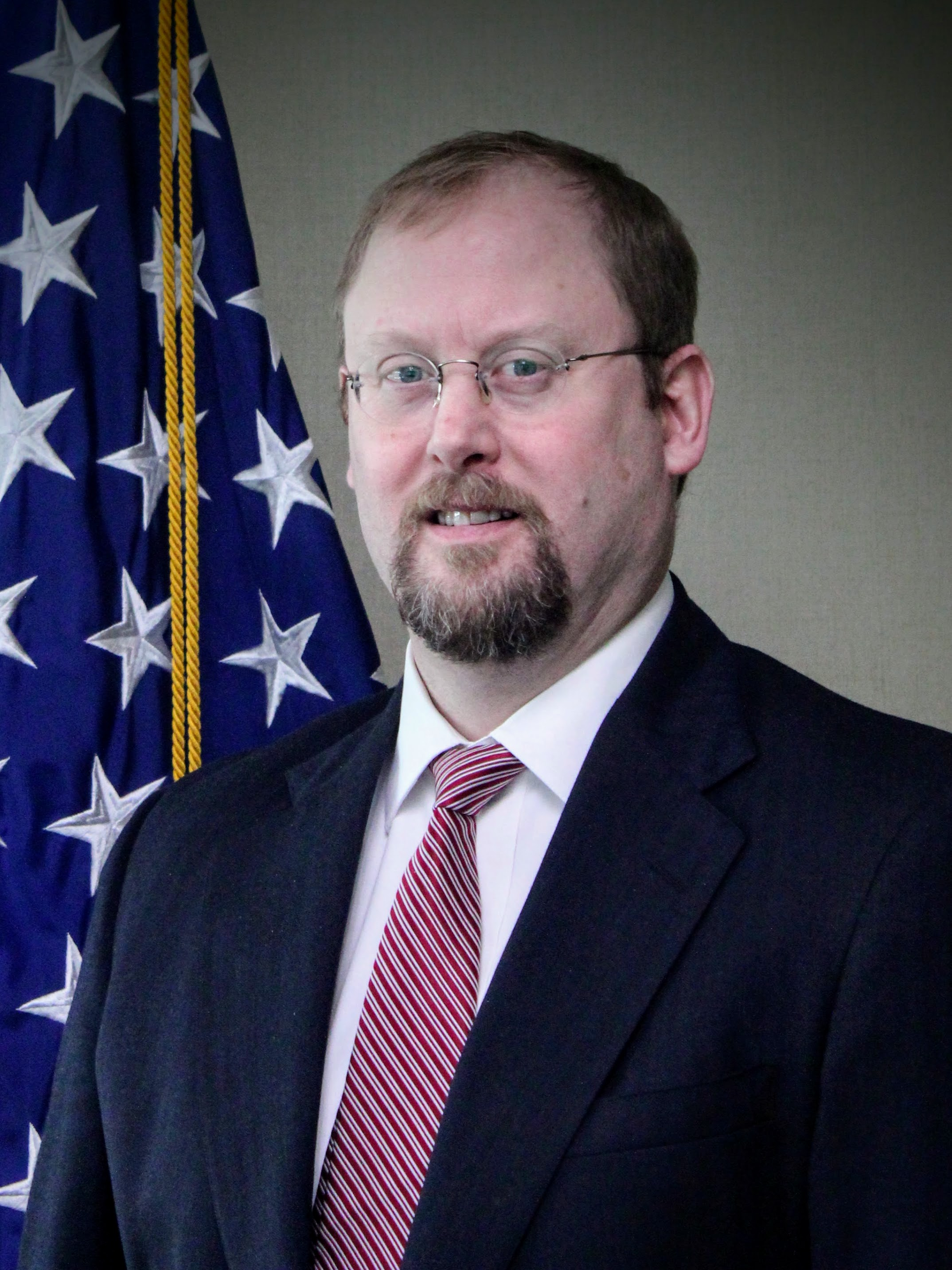 Photo of U.S. Attorney Birge